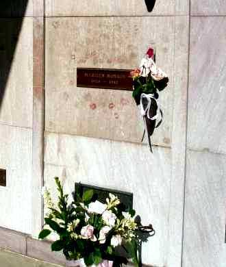 Marilyn Monroe crypt. Burial: Westwood Memorial Park, Los Angeles, Los Angeles County, California, USA. Plot: Corridor of Memories, Crypt 24.